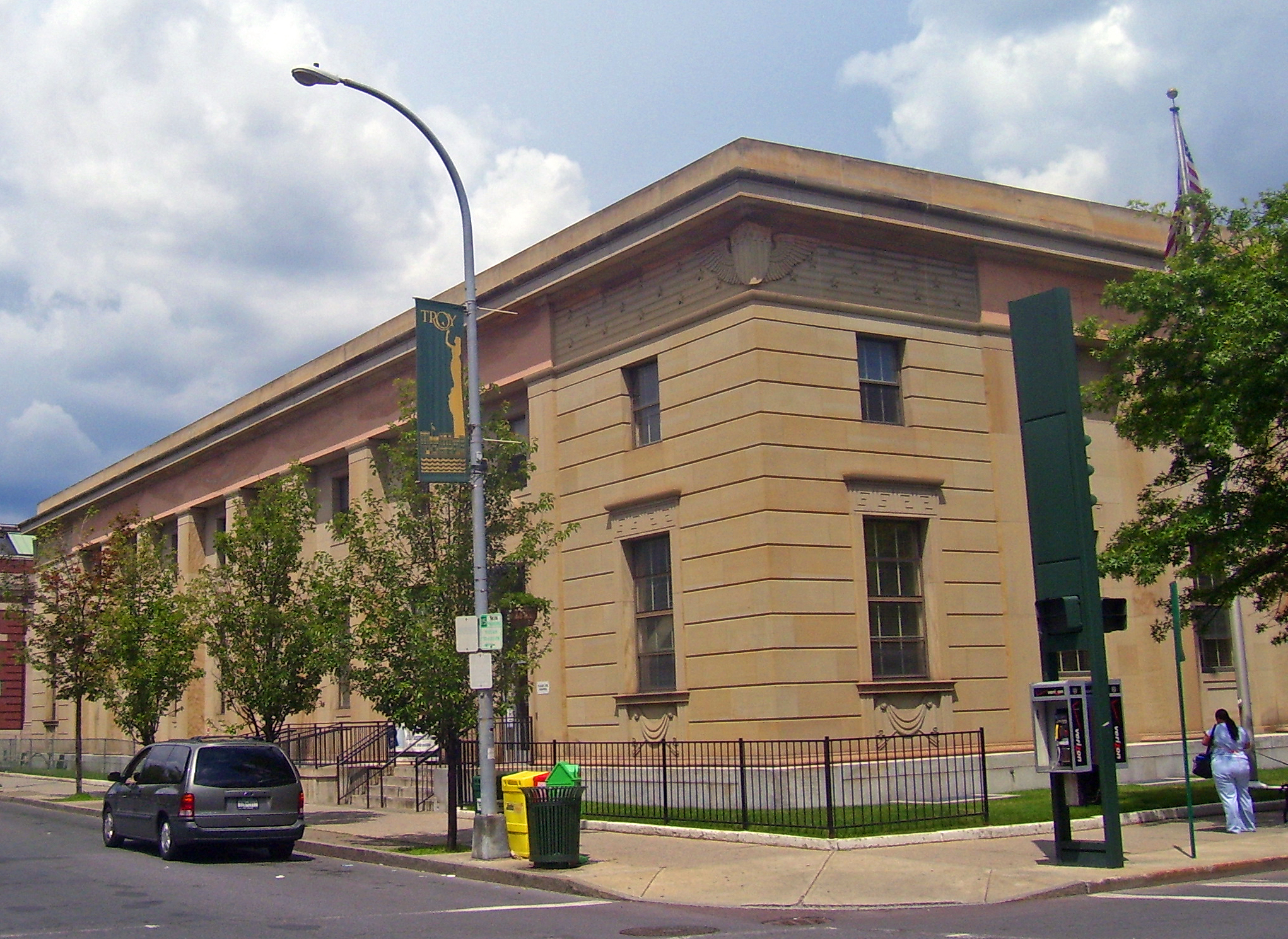 U.S. Post Office, Troy, NY, USA